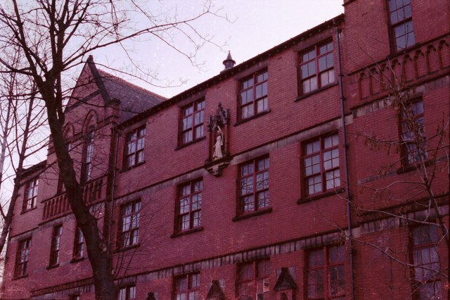 St Regis Building, Wellington Road, Whalley Range The St Regis building was part of the complex of buildings which formed the Cenacle Convent. This building was later used by the school opposite, St Bede's College, which also acquired land along Wellington Road. I believe that the top floor was used as dormitory accommodation by the nuns of the order.